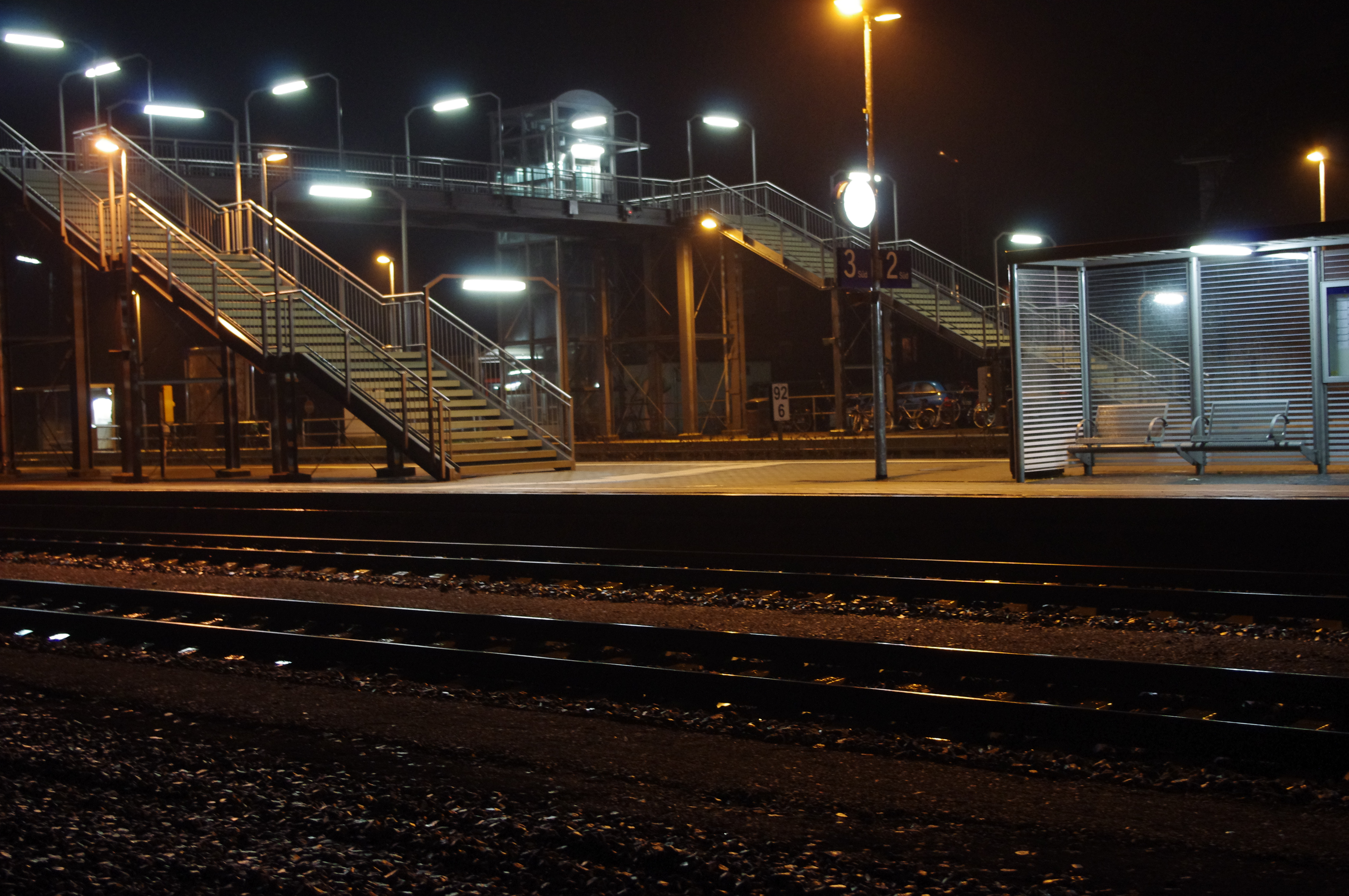 Footbridge over railway in Bramsche, Germany